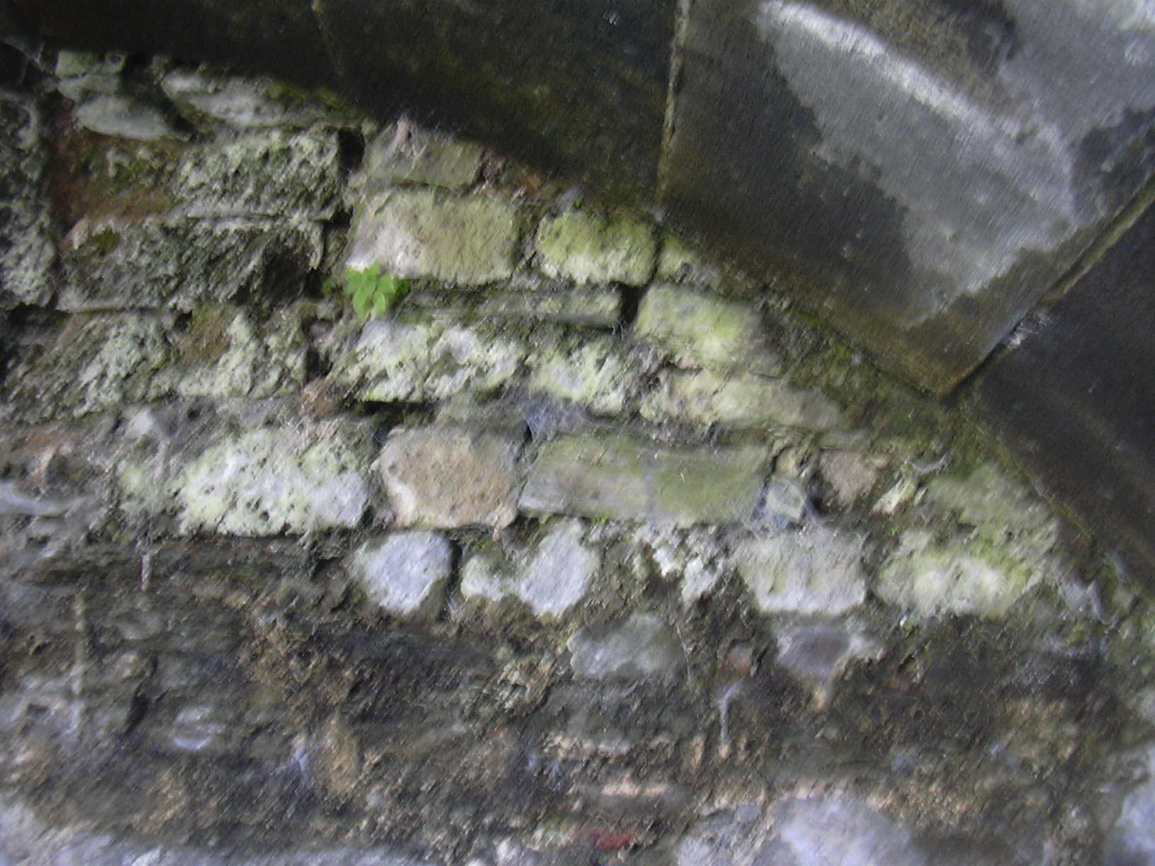 St. Peter and Paul, Remagen: Relics of Roman castle walls under today's building